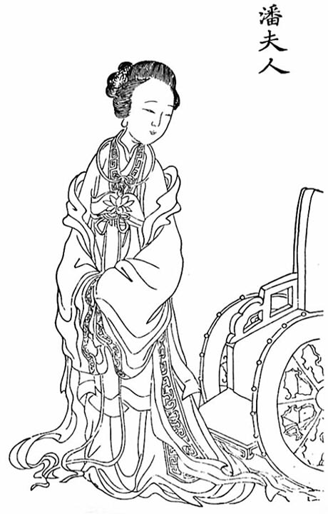 Empress Pan